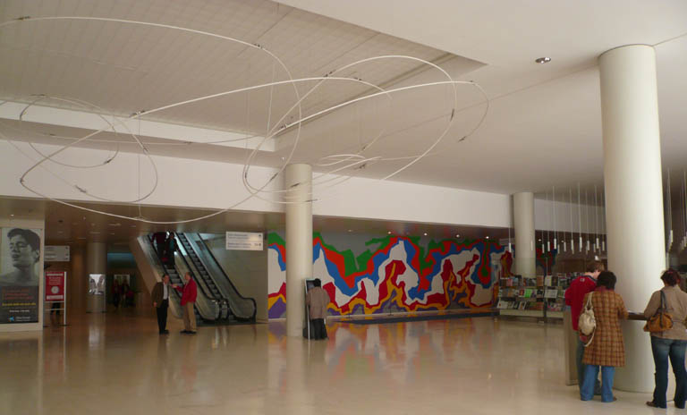 Caixaforum hall in Barcelona, with Ambient espacial num. 51-A1 by Lucio Fontana (1951), and mural painting Splat by Sol LeWitt, del 2001.